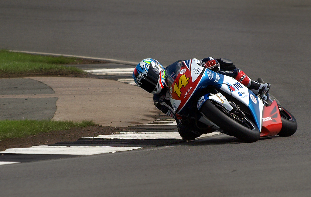 Ratthapark Wilairot, Thai Honda PTT SAG 25cc